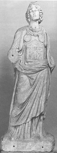 Statue of a priest of Magna Mater (gallus) from Rome. Rome, Capitoline Museums (late second century AD).